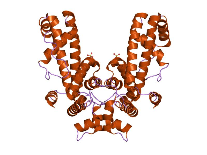 Cartoon representation of the molecular structure of protein registered with 1ku2 code.